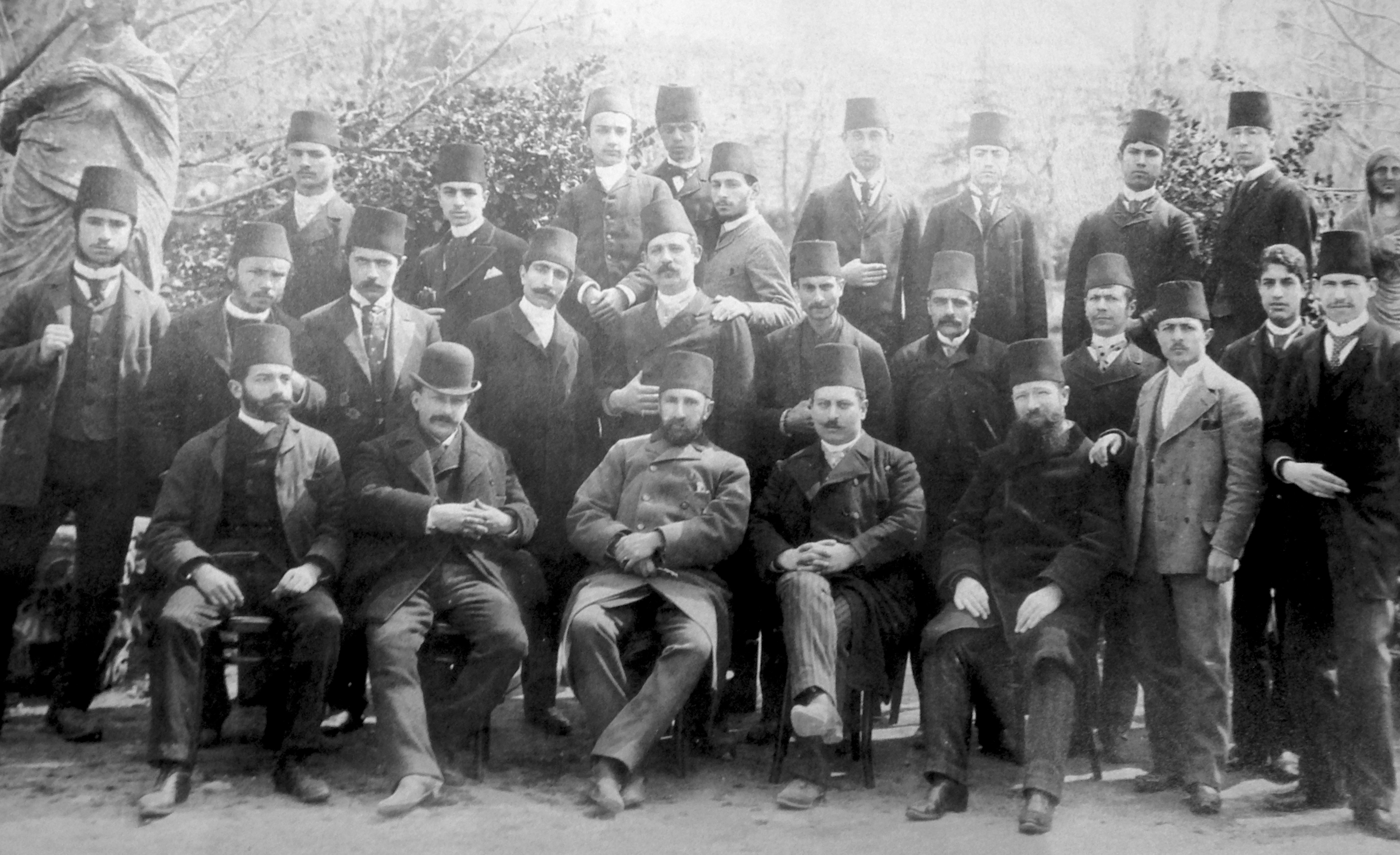 The only photographic image in which both appear was probably taken between 1885 and 1887 and depicts the teaching staff and student body of the Imperial Fine Arts School. An identification of Hagopian in the image was only made possible because of Teotig’s inclusion of the artist’s photograph in his biography. The teachers are seated while behind them, in two rows, stand the students. The latter have not been identified in the various publications of the image. Standing in the centre of the second row, fifth from the left, right behind Osman Hamdi Bey, stands Hagopian, considerably older than the other students, posing with hand clearly visible resting proudly on his lower chest. An unidentified young man [perhaps Vichen Arslanian] has his left hand firmly placed upon Hagopian’s left shoulder. With his head leaning slightly towards Hagopian, fourth from the left, stands Fetvadjian. The men have very slightly turned towards each other, their body language indicating familiarity. While in itself no confirmation of intimacy, nevertheless, viewed alongside the article, their position in this group photograph may also suggest a camaraderie between the two men.